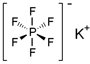 chemical structure of potassium hexafluorophosphate